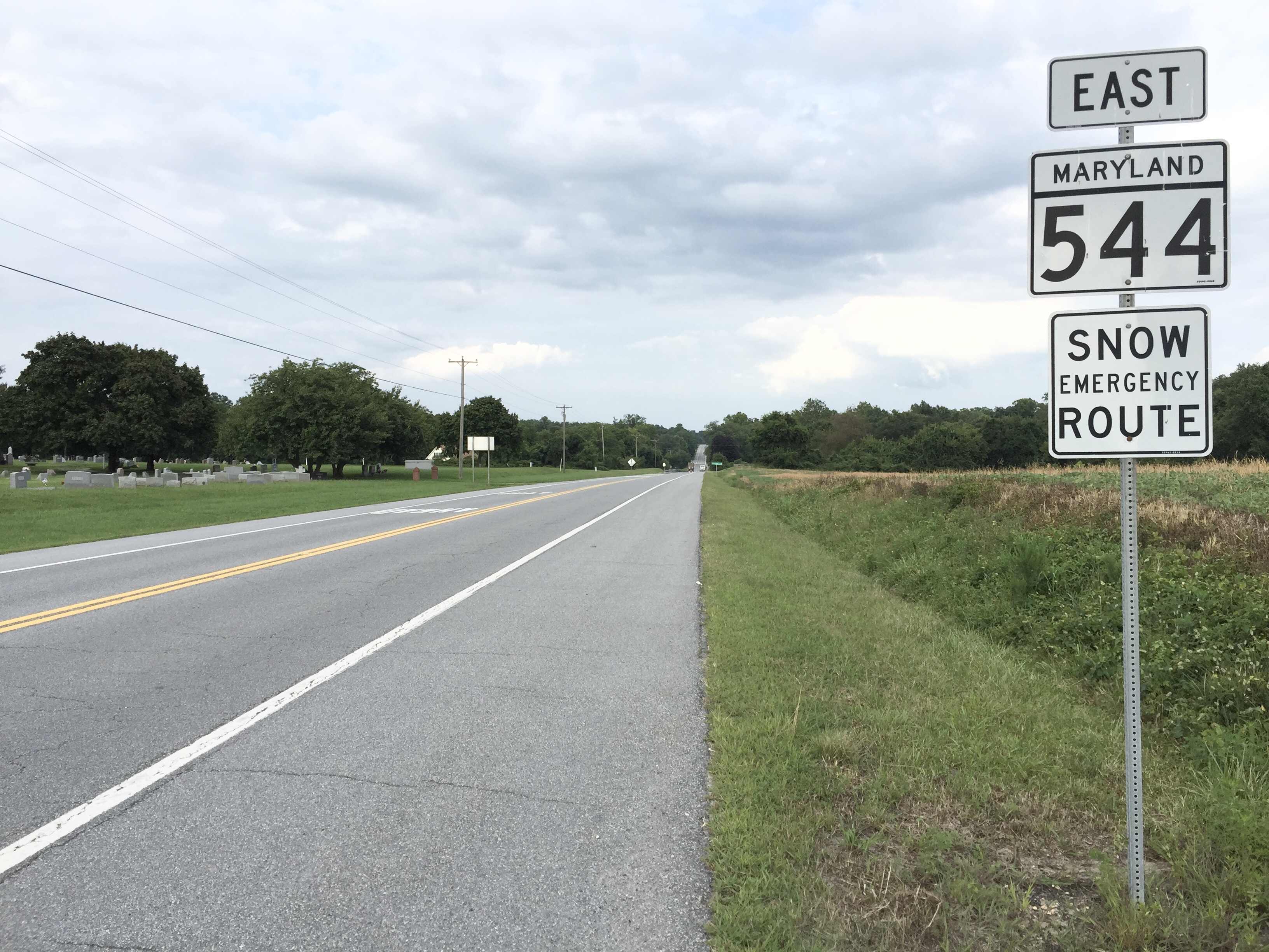 View east along Maryland State Route 544 (McGinnes Road) at Maryland State Route 290 (Dudley Corner Road) in Crumpton, Queen Anne's County, Maryland